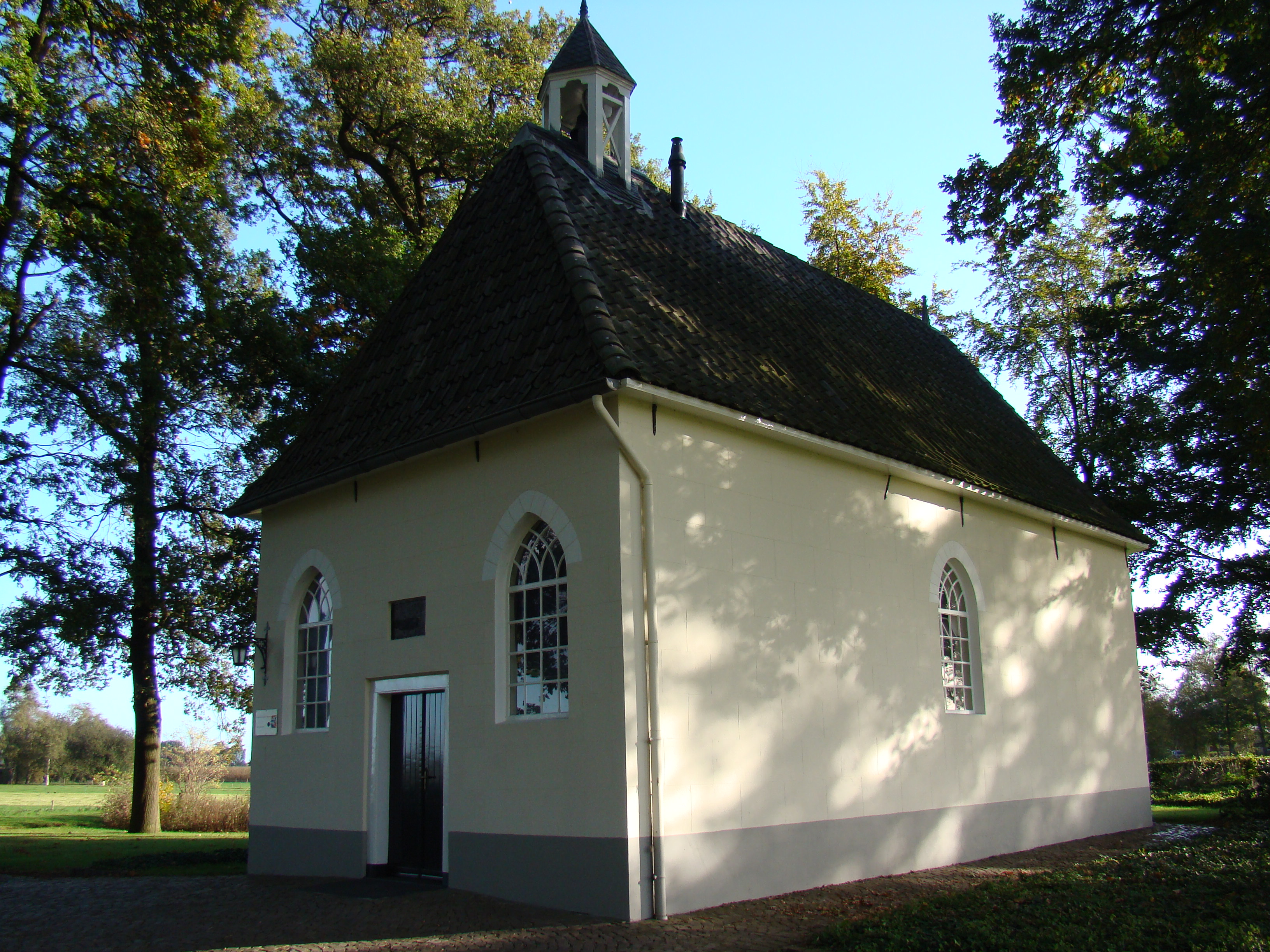 Antoniuskapel, Sinderen Netherlands